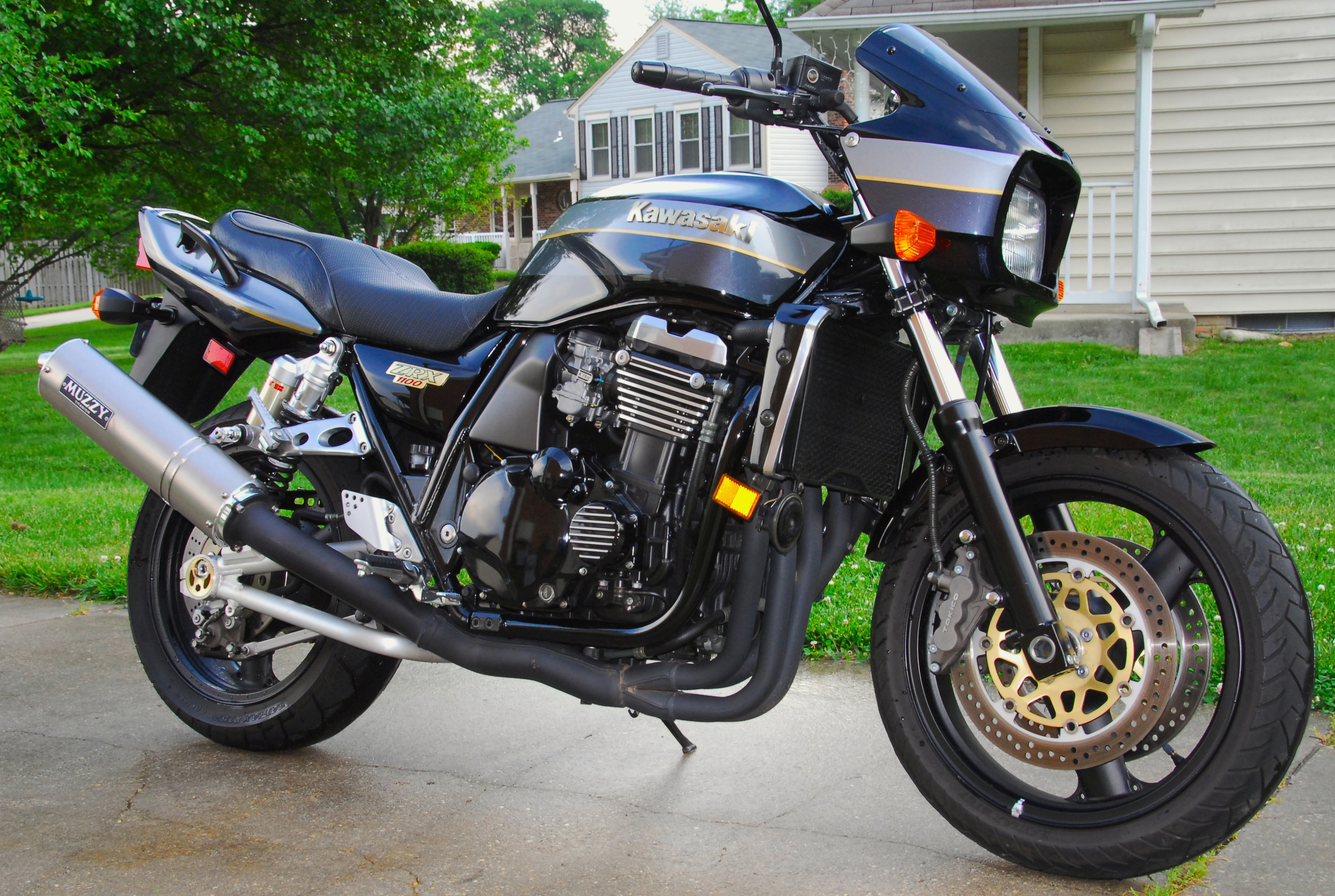 Kawasaki ZRX 1100. A reliable old friend always ready to go... Not bad for a 10 year old bike, huh...